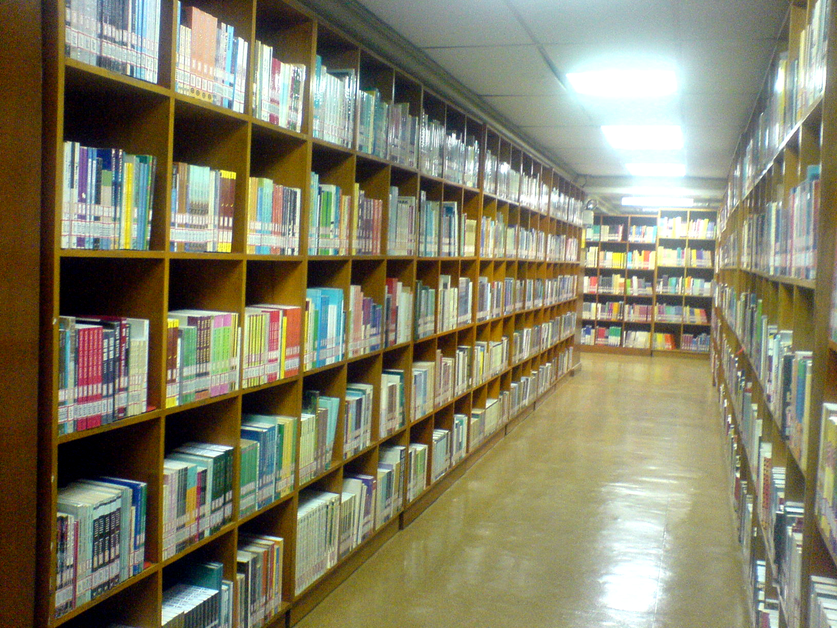 Library at the De La Salle College of Saint Benilde.